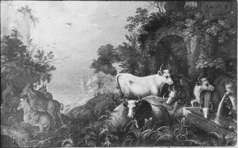 Berlandschap met dieren. Verloren gegaan. Opname uit 1936.